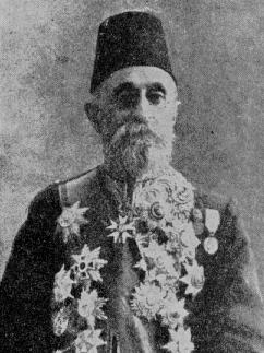 Gabriel (Kapriel) Efendi Noradunkyan (Armenian: Գաբրիել Նորադունքեան; 6 November 1852 Constantinople - 1936 Paris) was an Ottoman-Armenian statesman and bureaucrat. He served as the Minister of Trade in 1908 and Minister of Foreign Affairs of Ottoman Empire from July 22, 1912 to January 23, 1913 during the reign of Mehmed V and the prime ministership of Ahmed Muhtar Pasha and Kâmil Pasha.